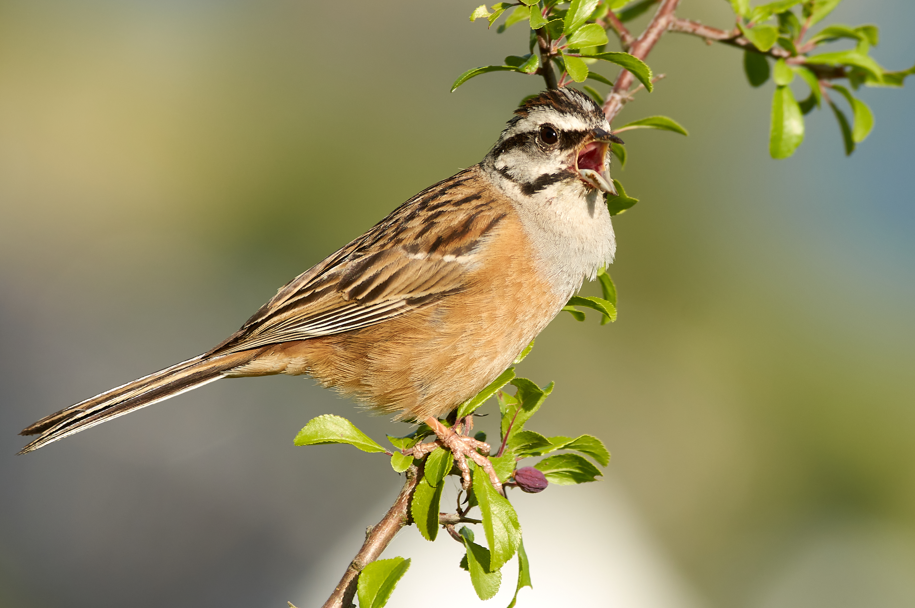 singing rock bunting, Cochem-Zell district in Rhineland-Palatinate, Germany.